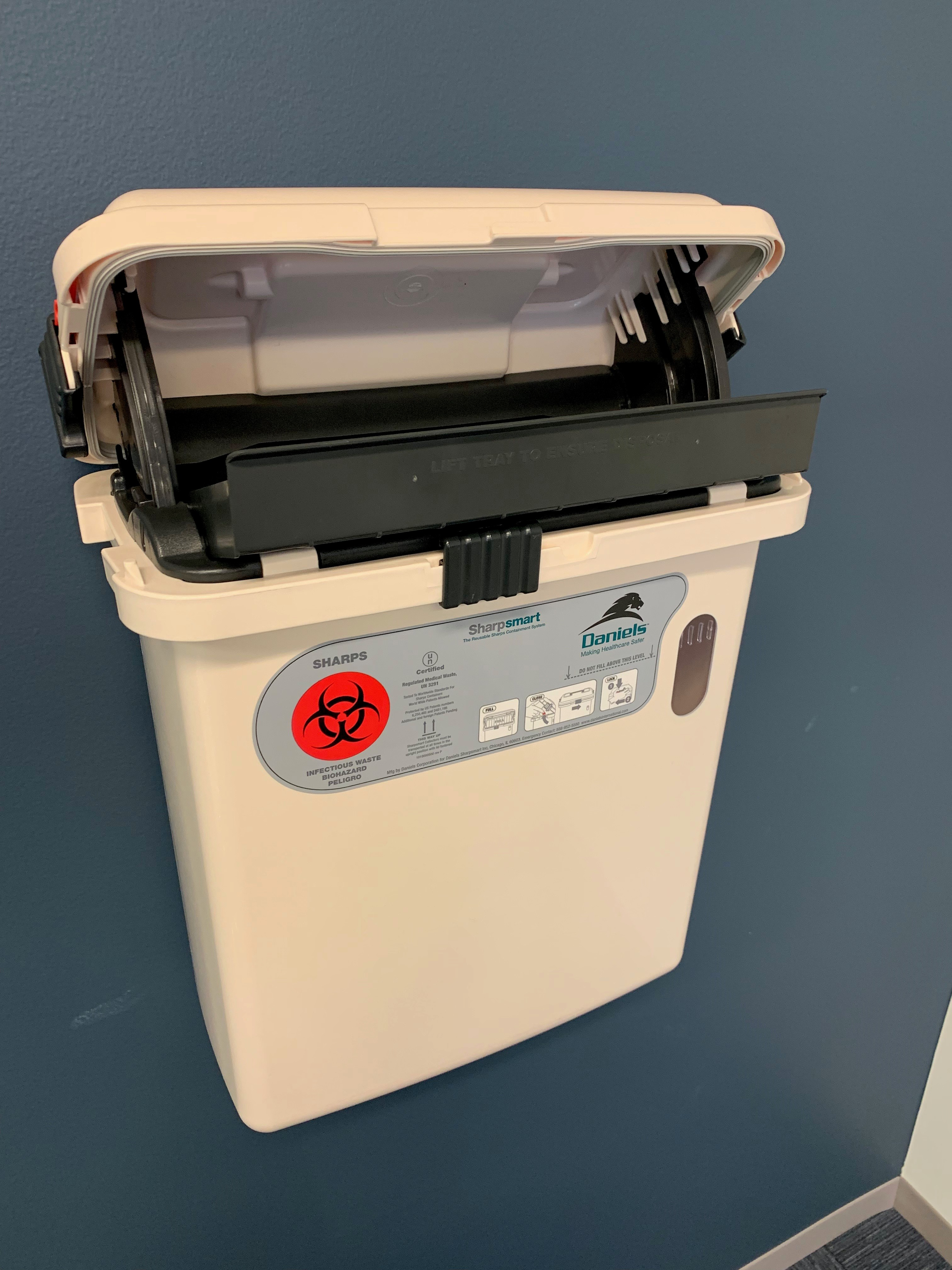 Sharps container for needle disposal